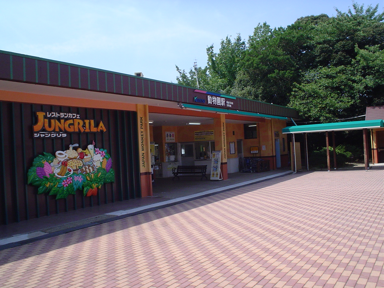 Monkey Park Monorail Line - Dōbutsuen Station